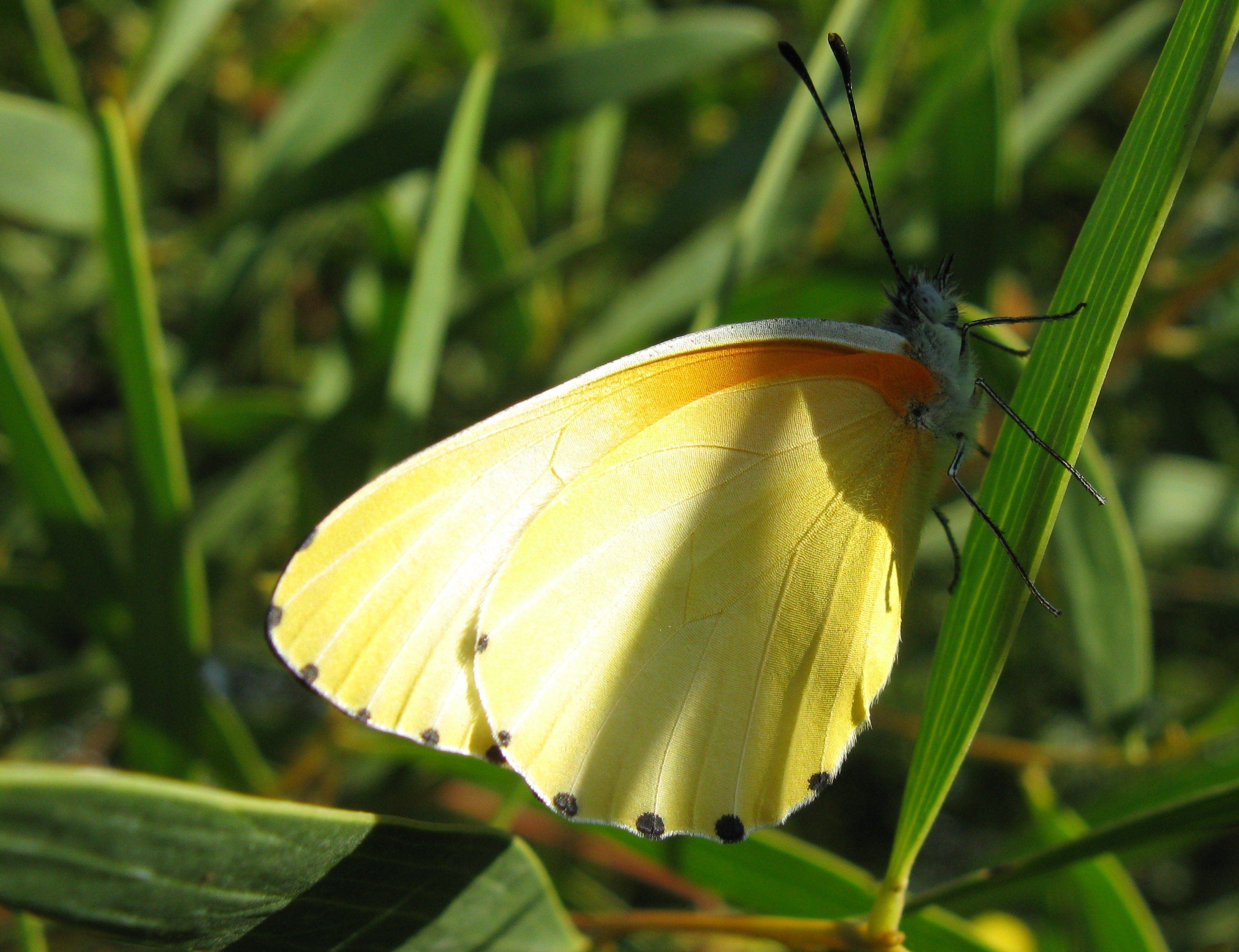 Mylothris agathina Pieridae Common Dotted Border, Photographed at Langebaan North of Cape Town, South Africa